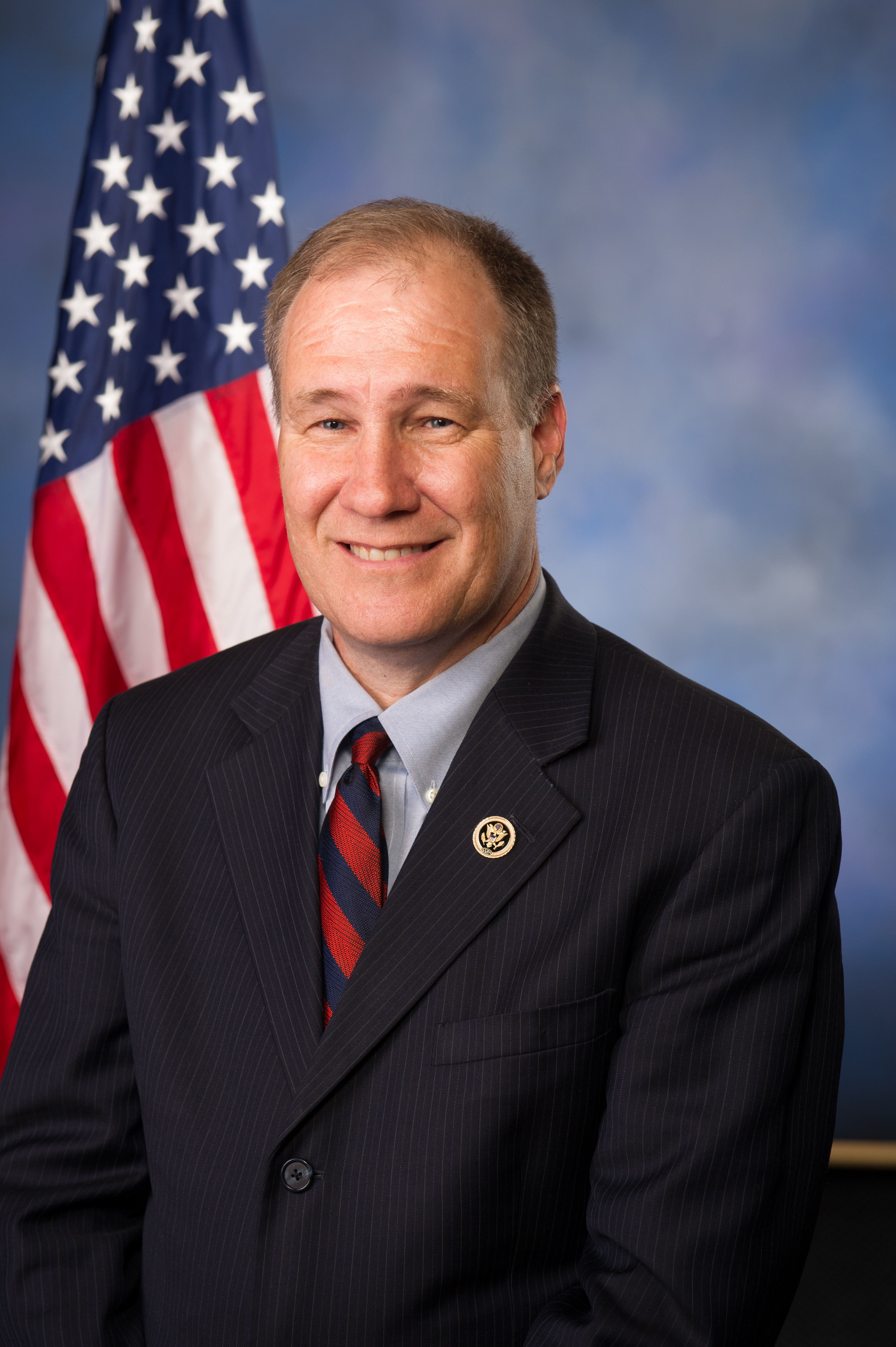 Trent Kelly official photo, 114th Congress